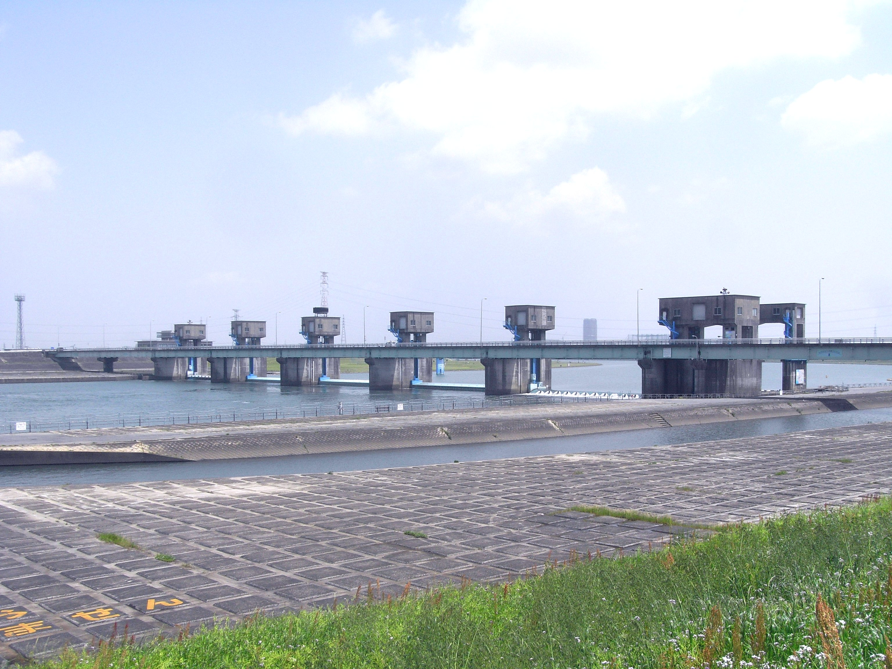 Chikugo Ozeki Weir(Chikugogawa river/Fukuoka pref.and Saga pref./Japan)